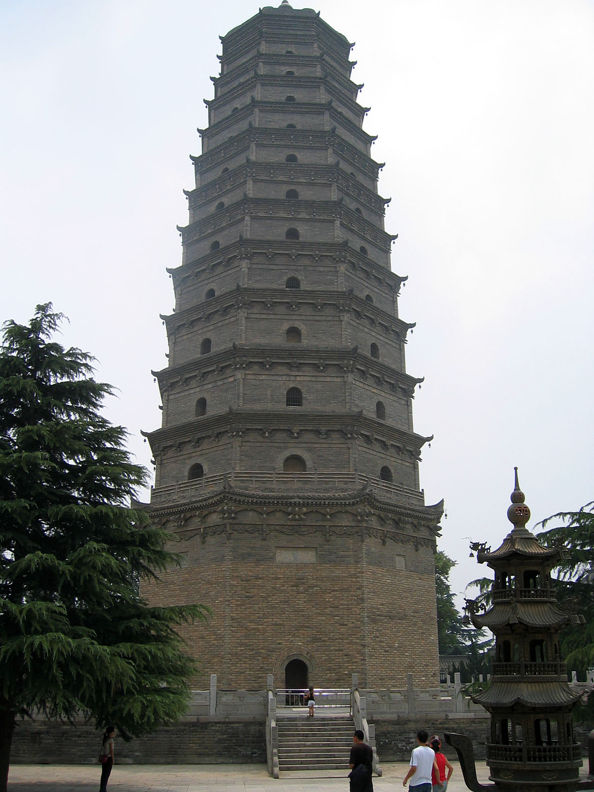 The Famen Pagoda